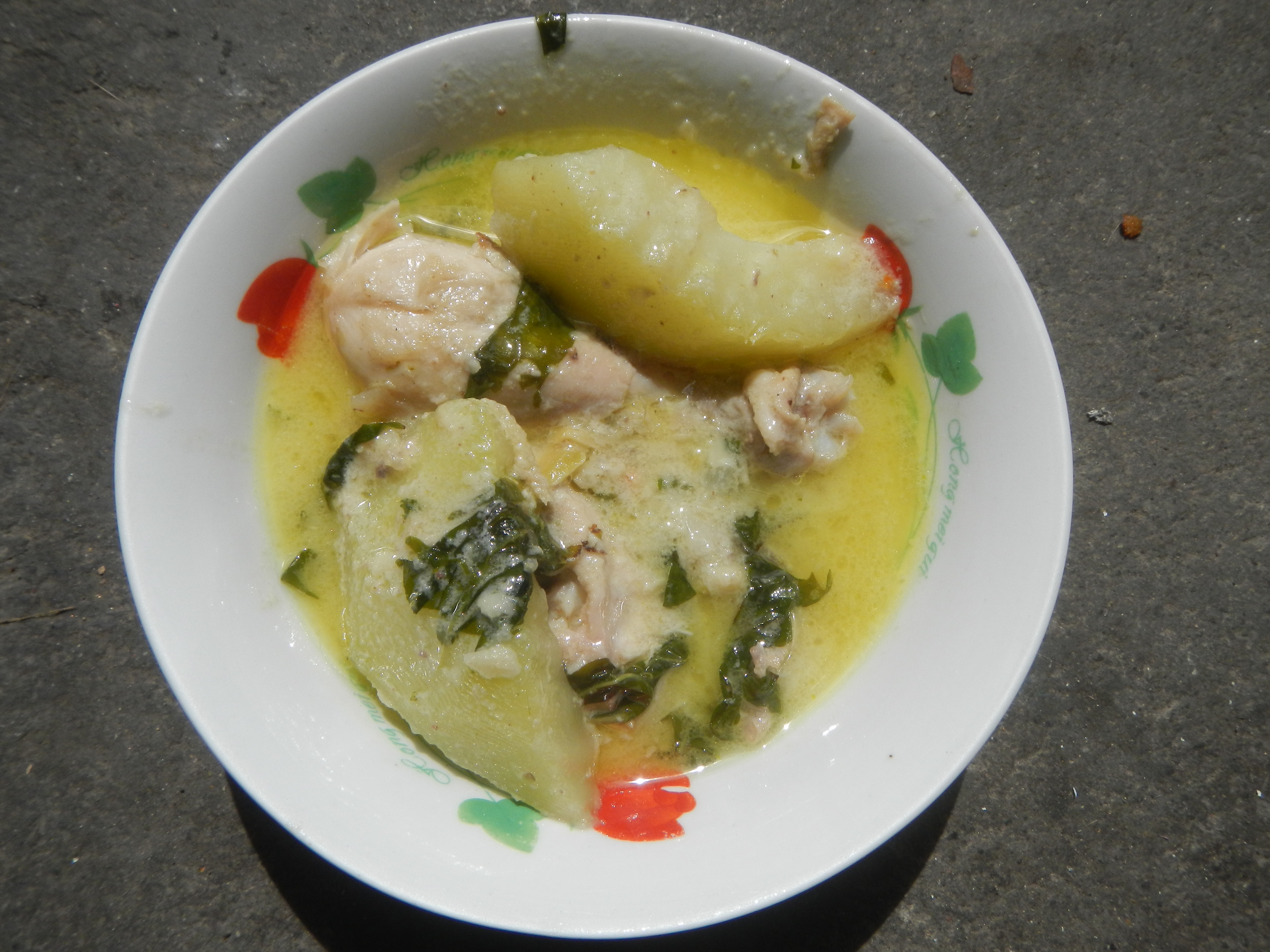 Soup Ginataang manok and Sinigang na Bangus Dogs of the Philippines eating (Note: Judge Florentino Floro, the owner, to repeat, Donor Florentino Floro of all these photos hereby donate gratuitously, freely and unconditionally Judge Floro all these photos to and for Wikimedia Commons, exclusively, for public use of the public domain, and again without any condition whatsoever).